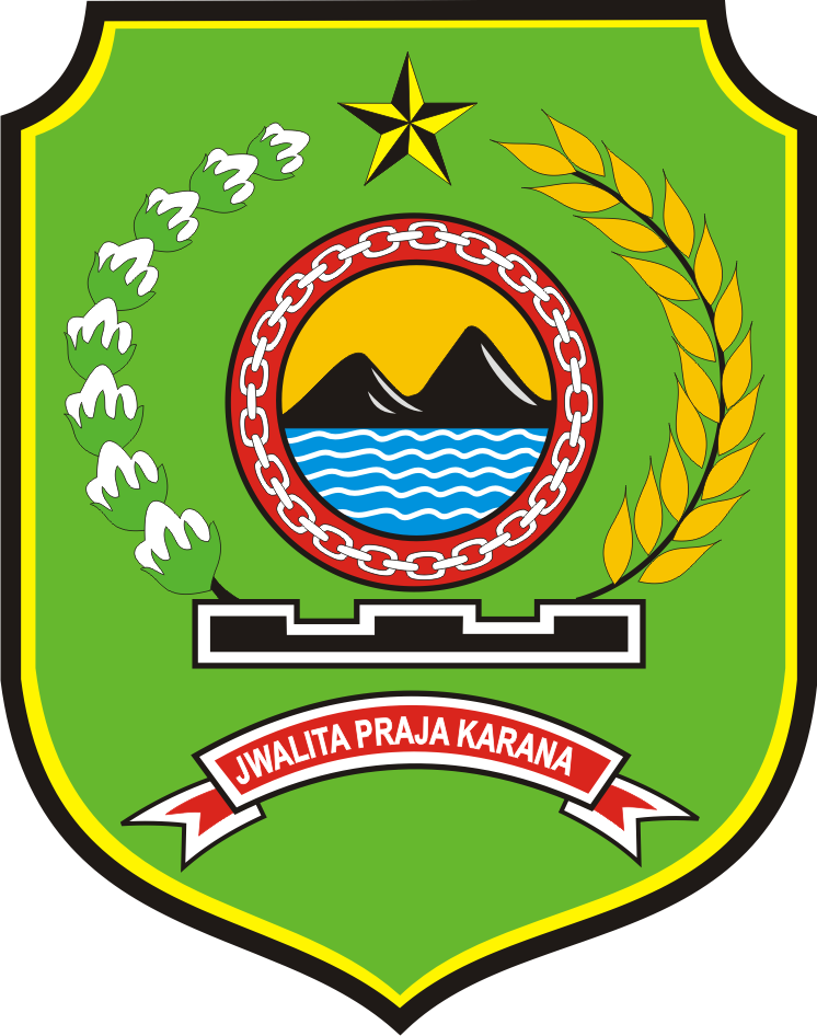 The coat of arms of Trenggalek regency